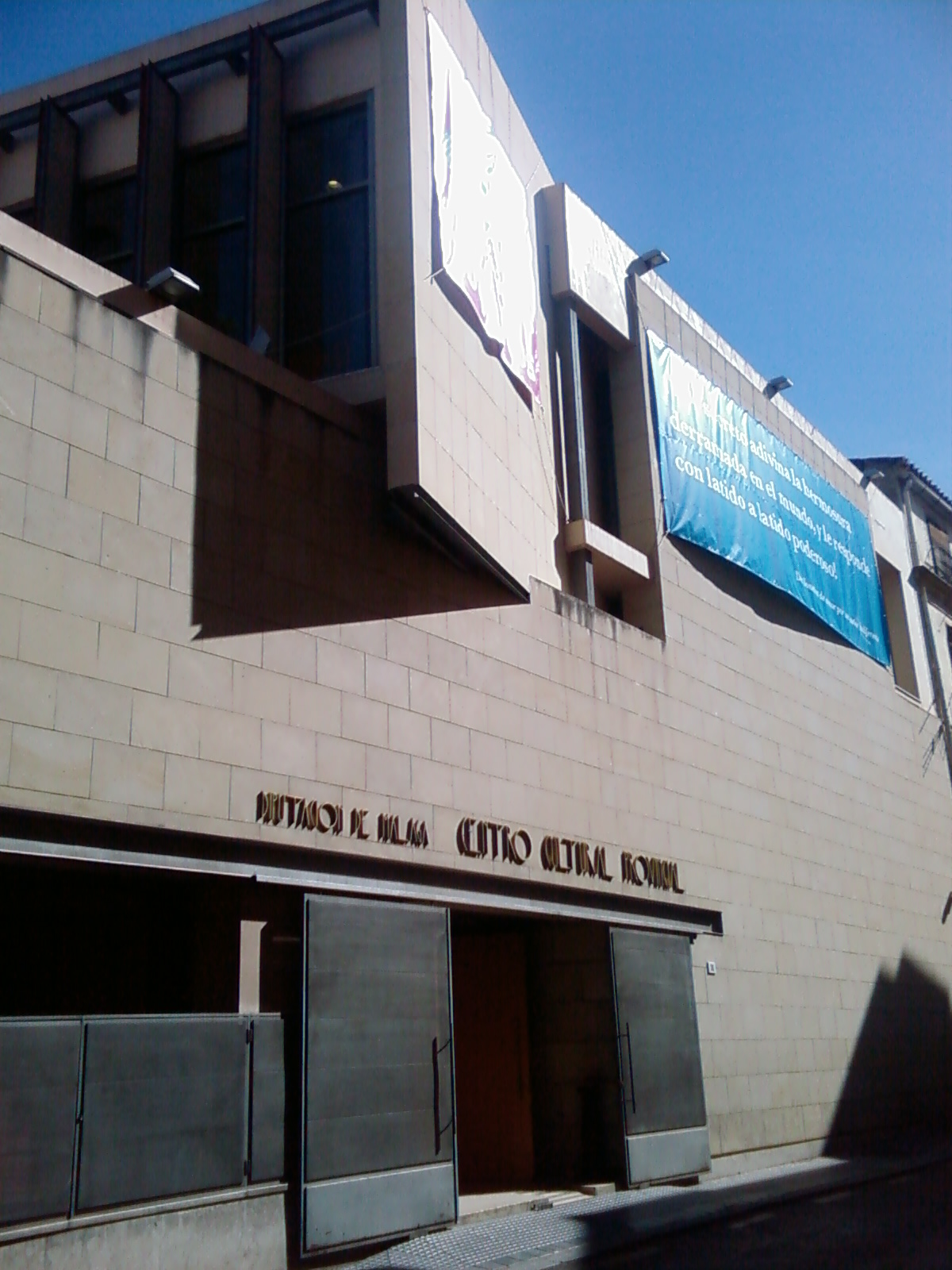 Cultural Centre of the Province of Málaga, Spain (Calle Ollerías entrance)